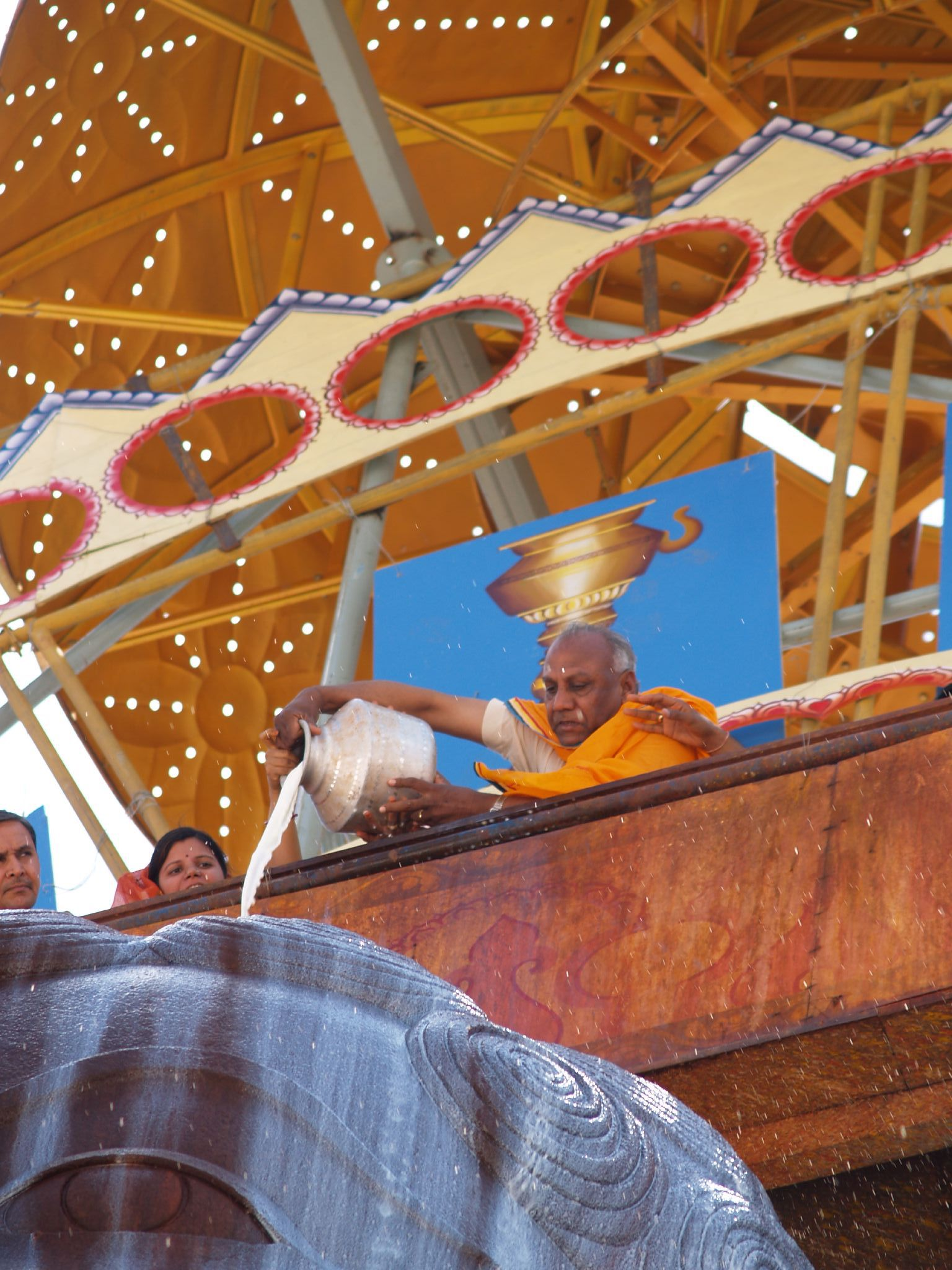 Pouring coconut milk over Lord Bahubali at the Jain temple of Shravanbelgola in Karnataka, India.